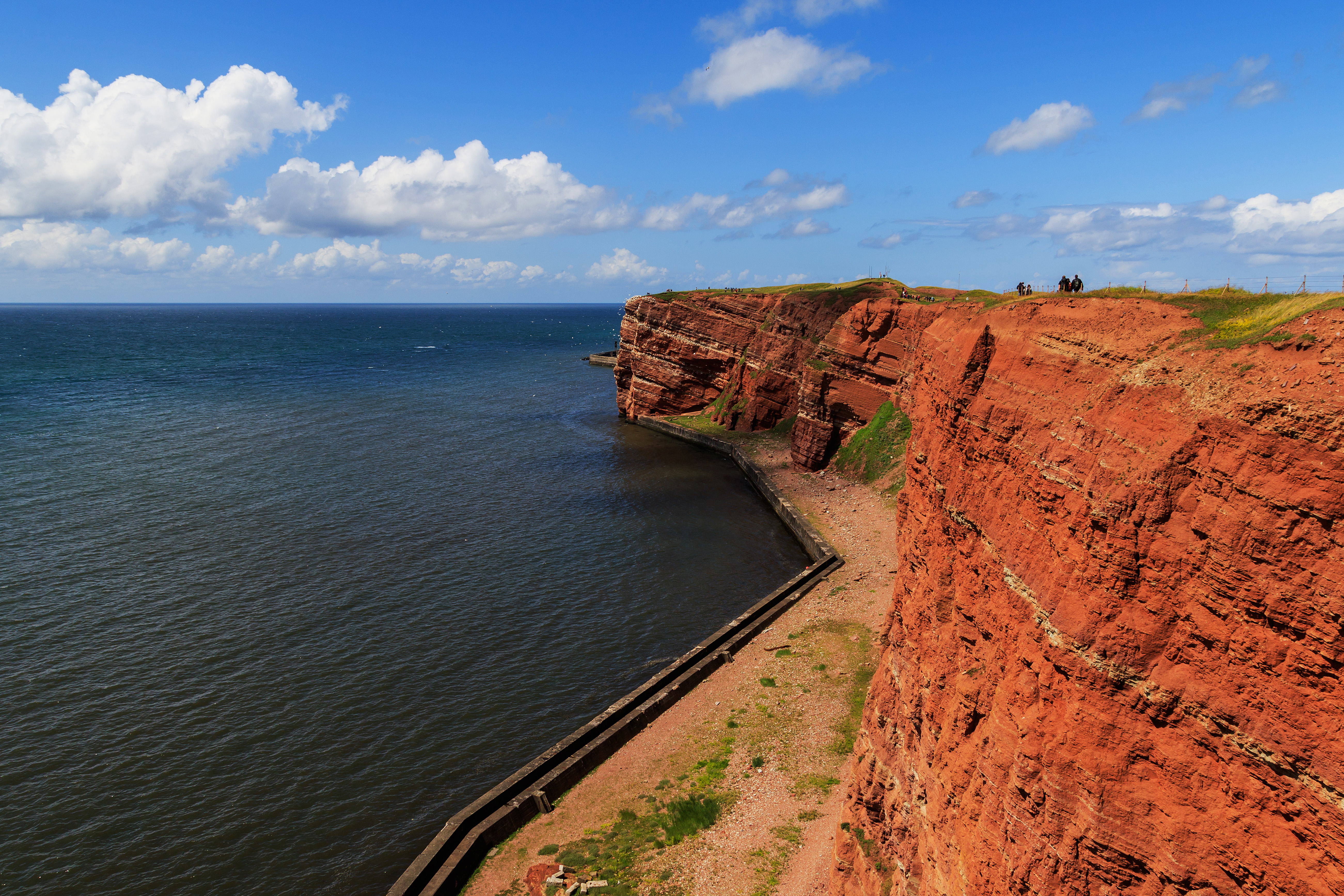 View of the cliffs from upper island of Heligoland, Germany